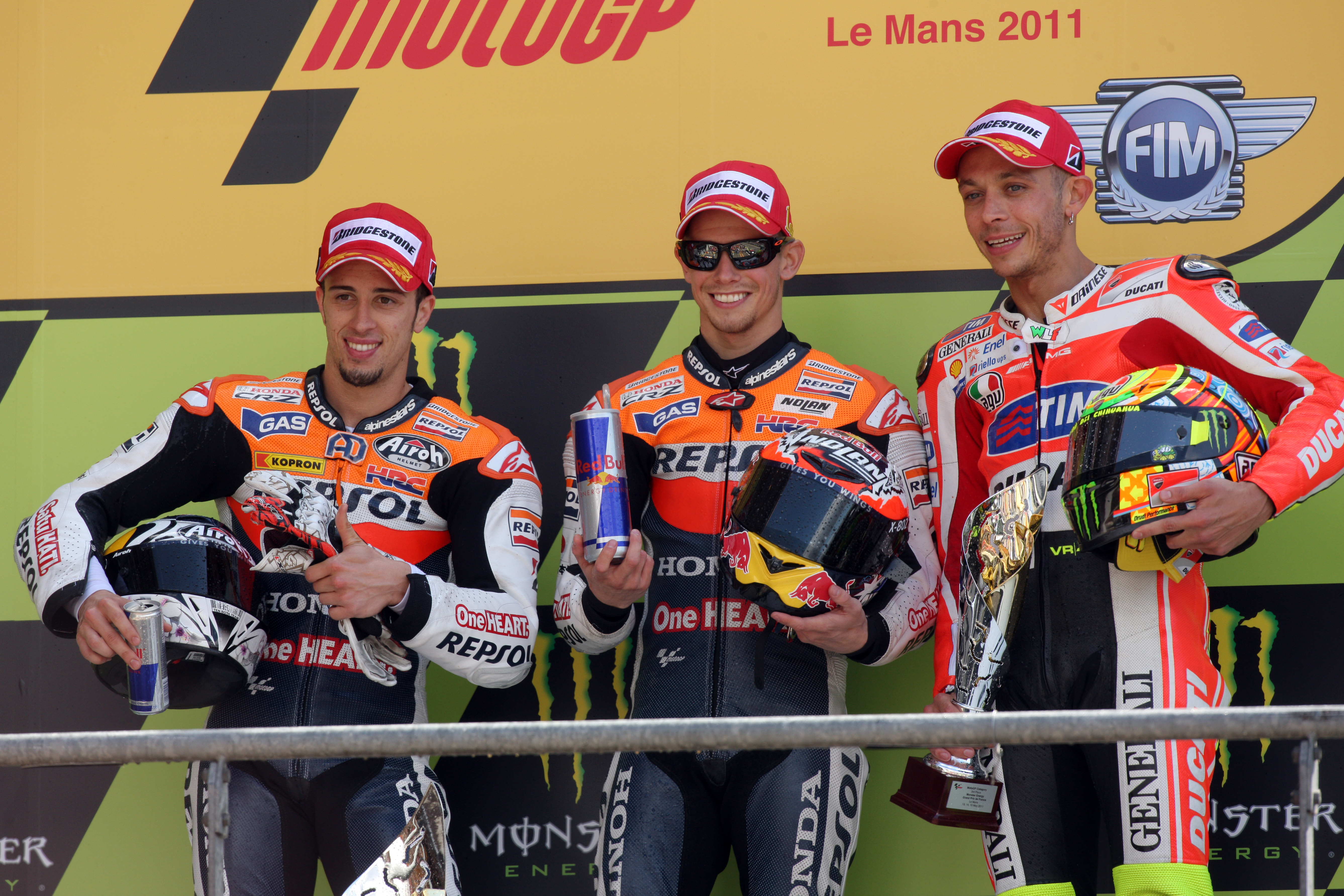 Andrea Dovizioso, Casey Stoner and Valentino Rossi, posing for photo's after finishing in second, first and third place at the 2011 French Grand Prix.